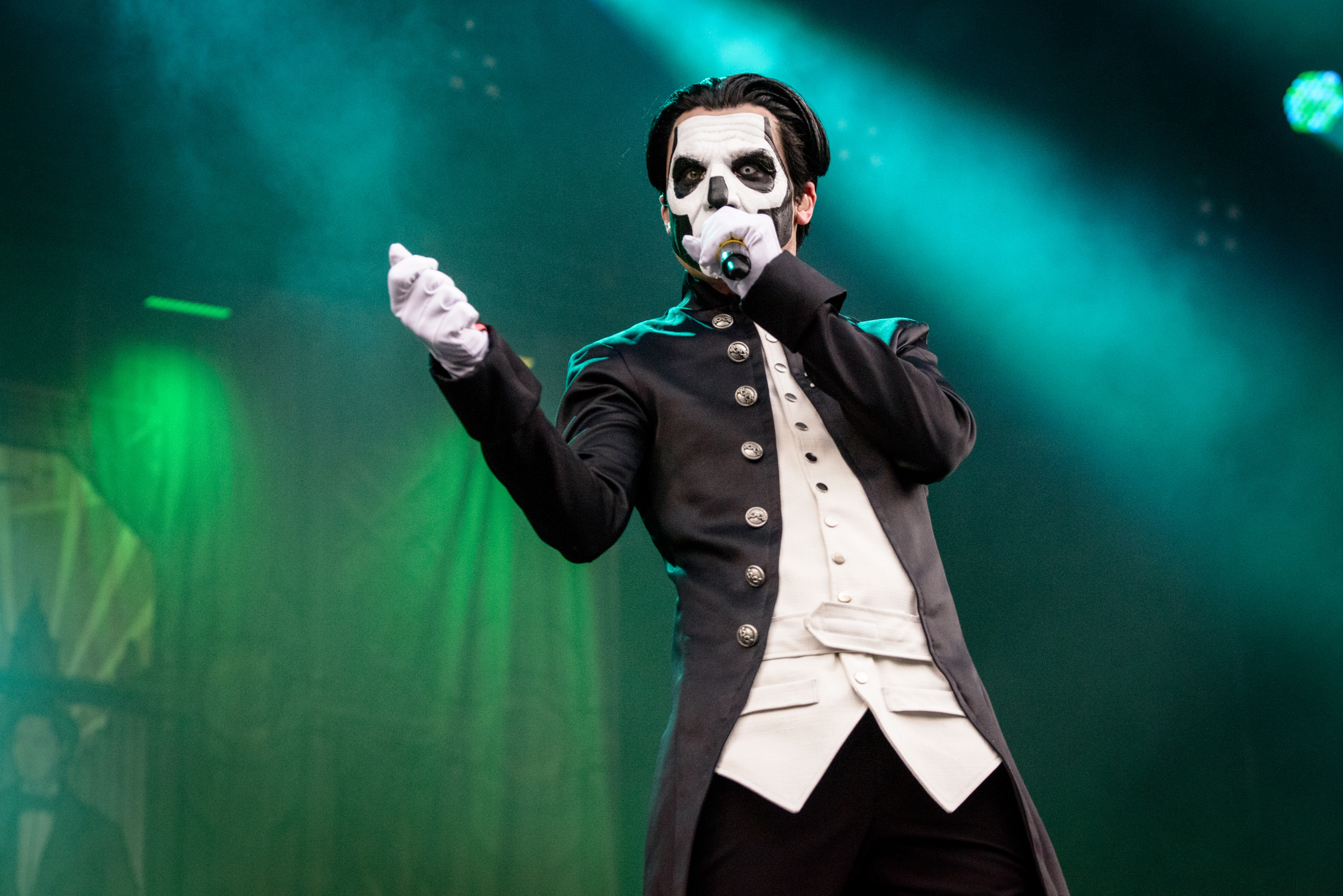 Ghost Live @ Rockavaria 2016